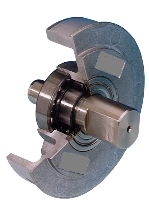 Interroll production center